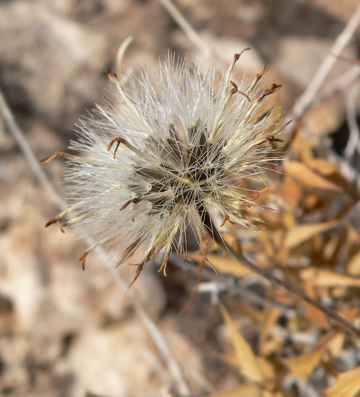 Brickellia atractyloides on limestone outcrops about 3 km south of Blue Diamond Road at Durango, southwest of Las Vegas, Nevada